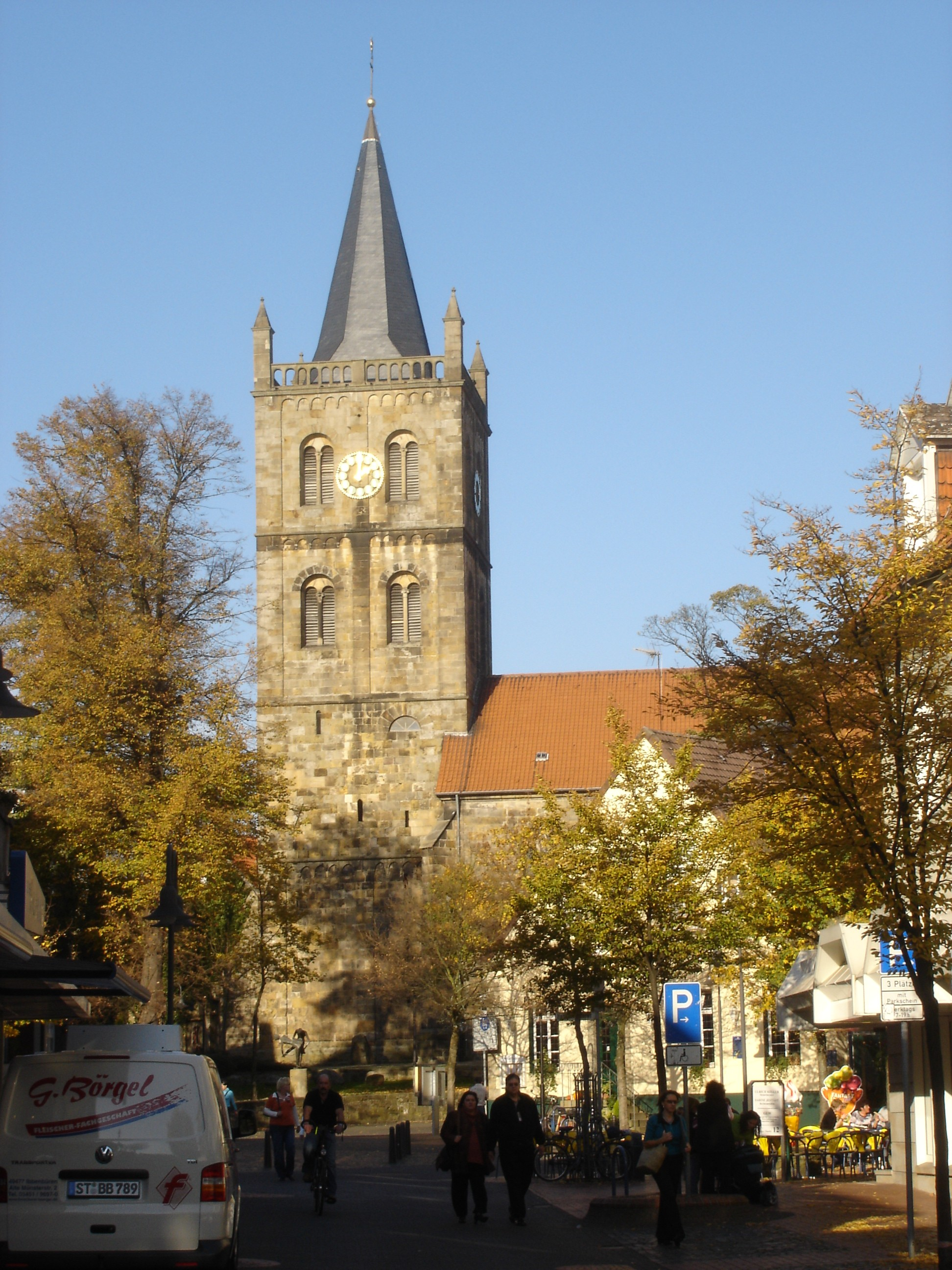 Protestantic Christuskirche in the city of Ibbenbüren